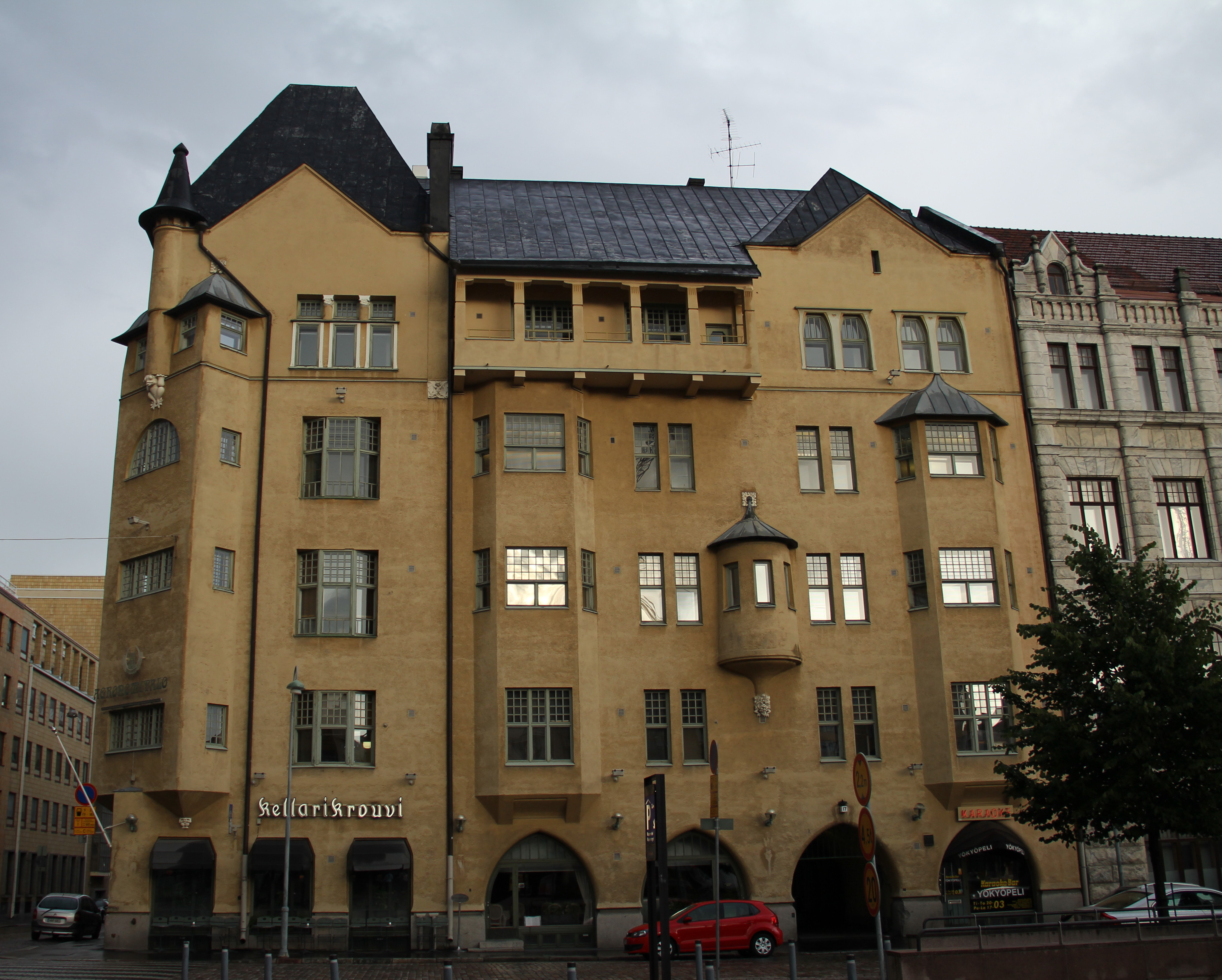 Argronomitalo, former Lääkäreiden talo, Kaartinkaupunki, Helsinki, Finland. - Designed by Gesellius, Lindgren, Saarinen Architects. Completed in 1901. - Facade to Fabianinkatu.